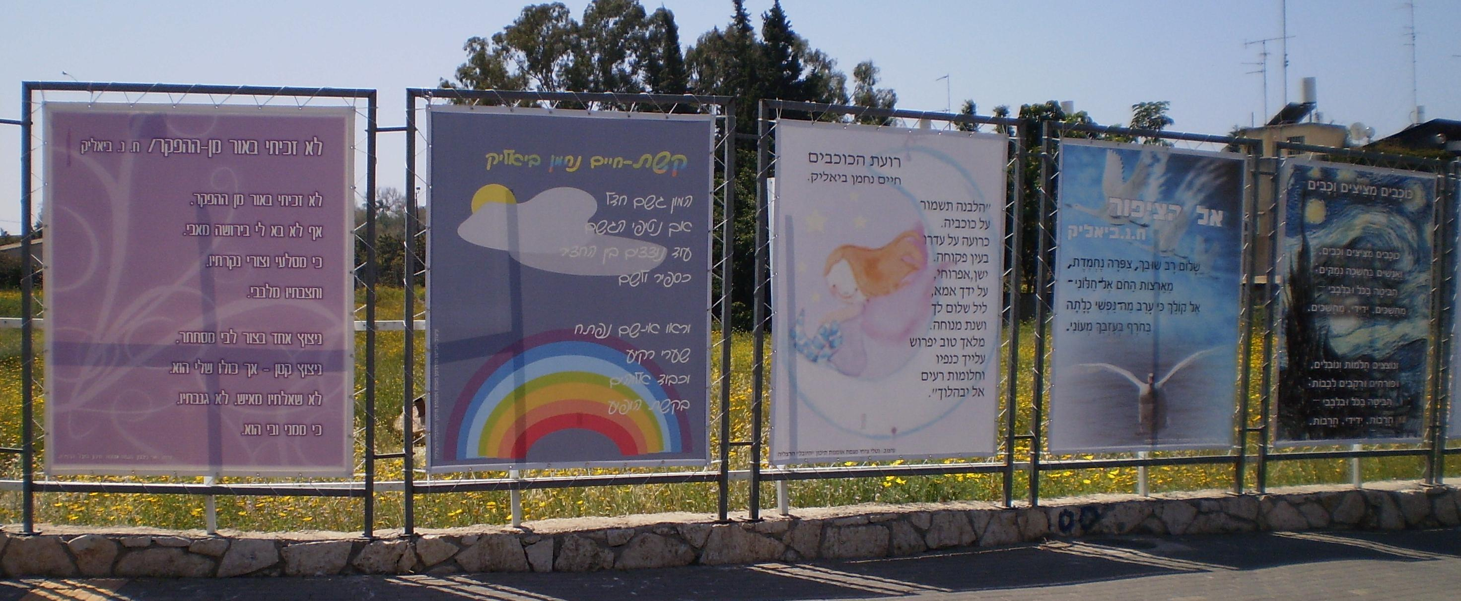 Songs of Bialik in a street corner in Herzliya - a project of Hayovel high school